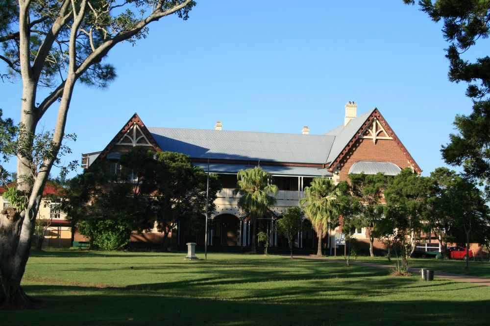 Maryborough State High School, former Maryborough Boys' Grammar School from SW (2009)